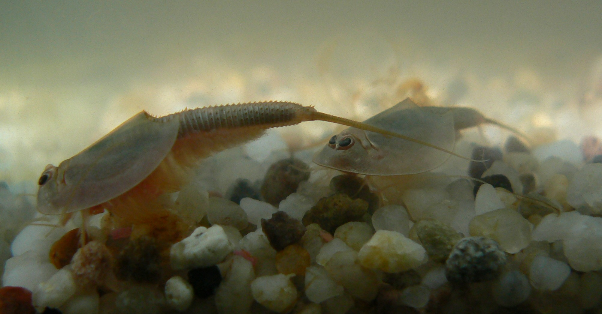 The tadpole shrimp Triops australiensis, native to Australia